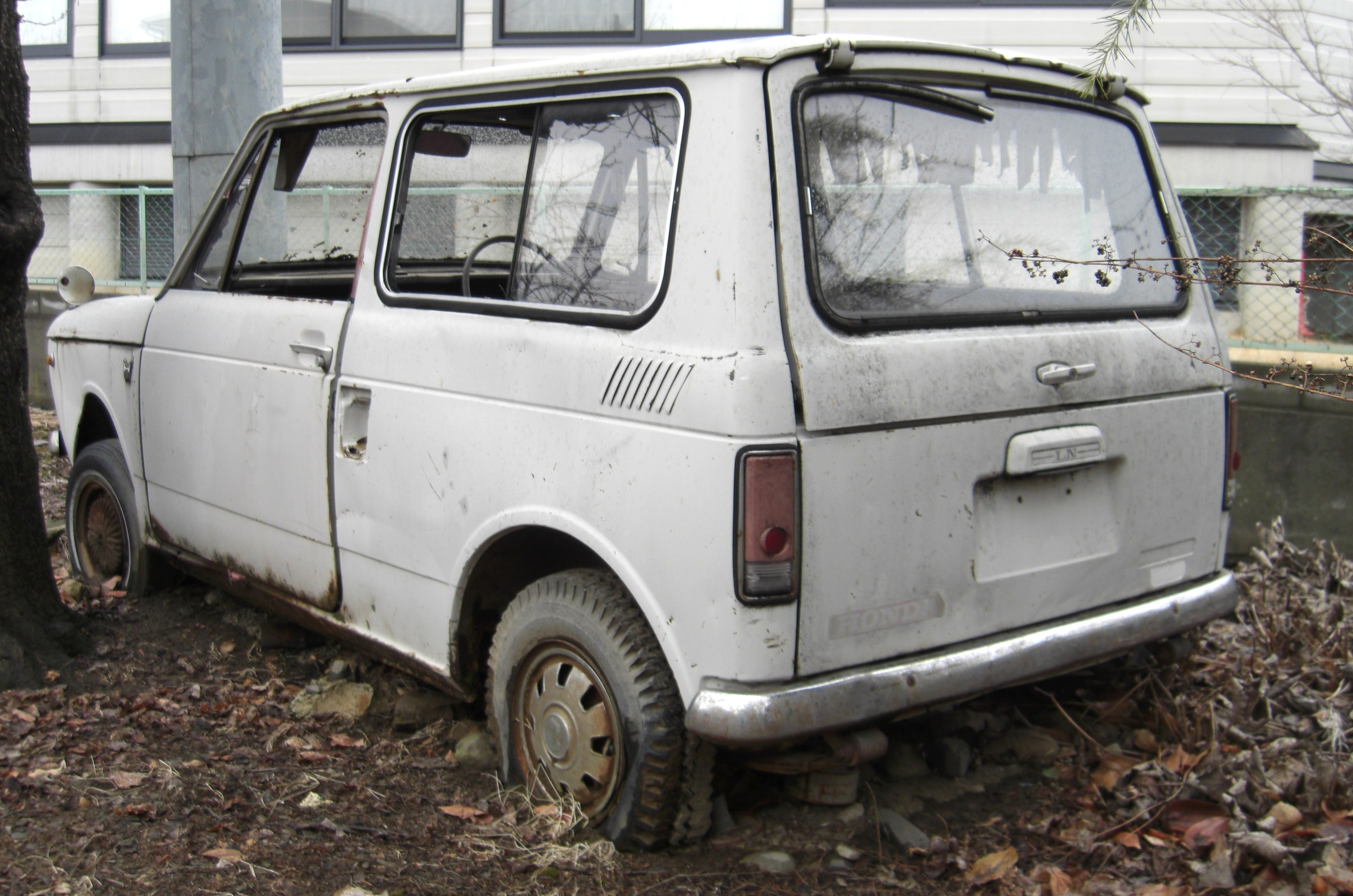 1967-1968 Honda LN360 Van